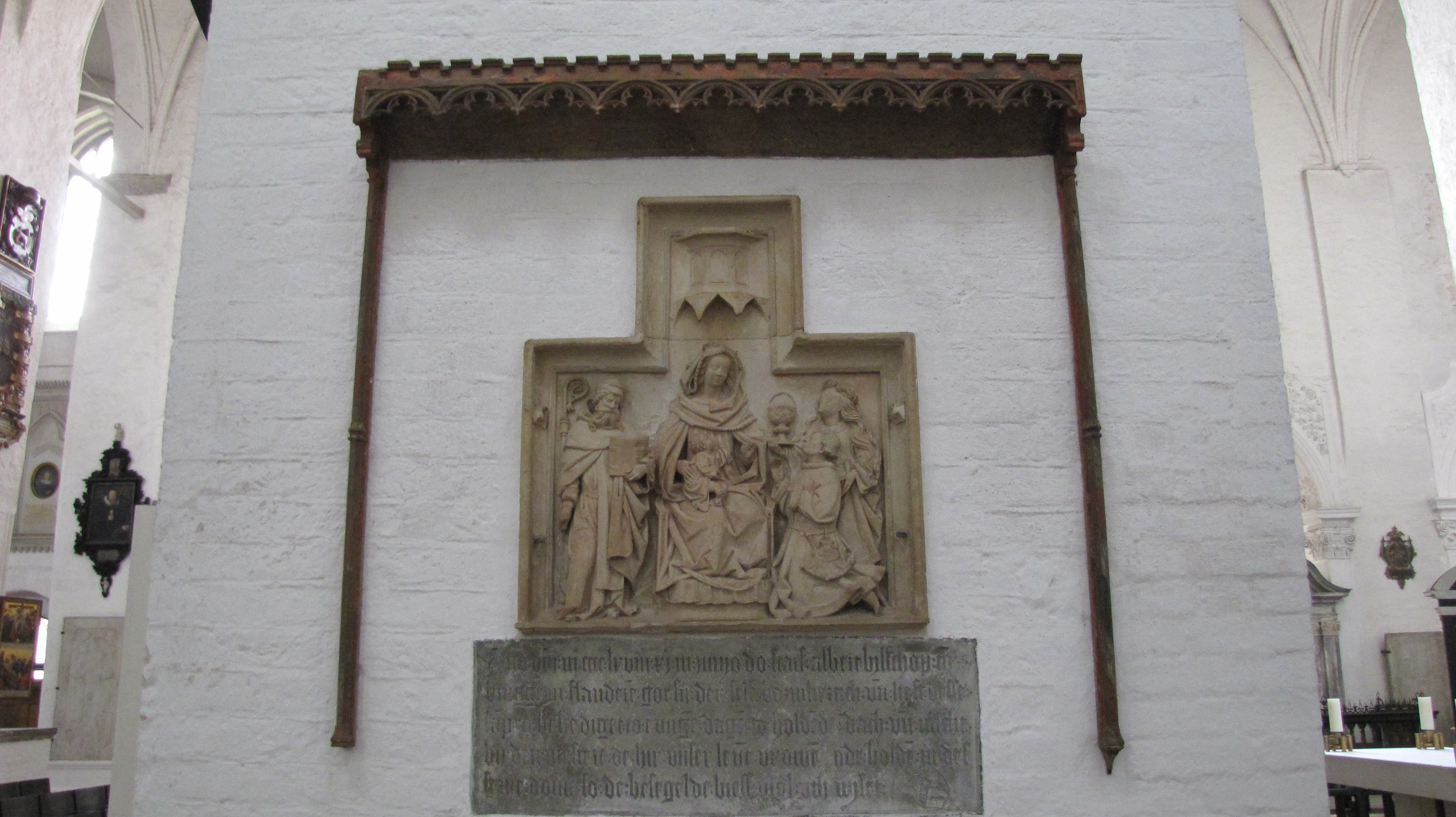 Epitaph for merchant Albert Bisschop in Dom, Lübeck, showing the donor kneeling before the Madonna with two saints, Dorothy and Albert the Great